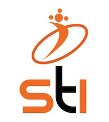 This is the image used for Symptom Targeted Intervention or STI, the clinical program to help medical patients with depression and anxiety